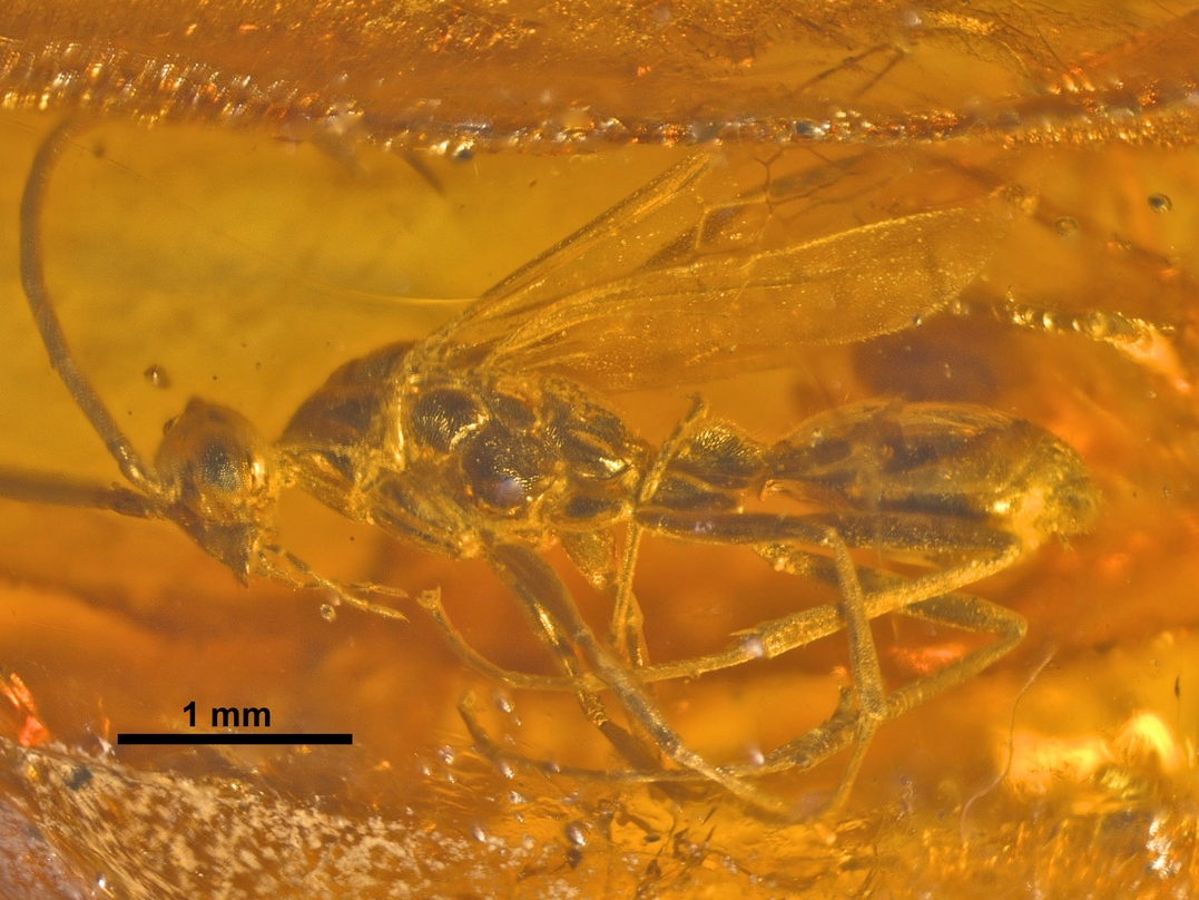 Profile view of the Baikuris mandibularis holotype. Specimen PIN3730-5. Taimyr amber, Santonian; Taimyr Peninsula, Siberia, Russia